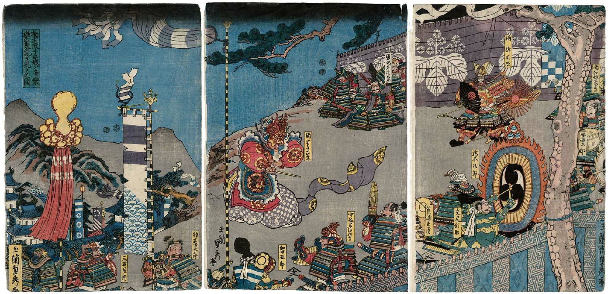 Kusunoki Masashige Appreciates a Performance of Music and Song at the Chihaya Castle